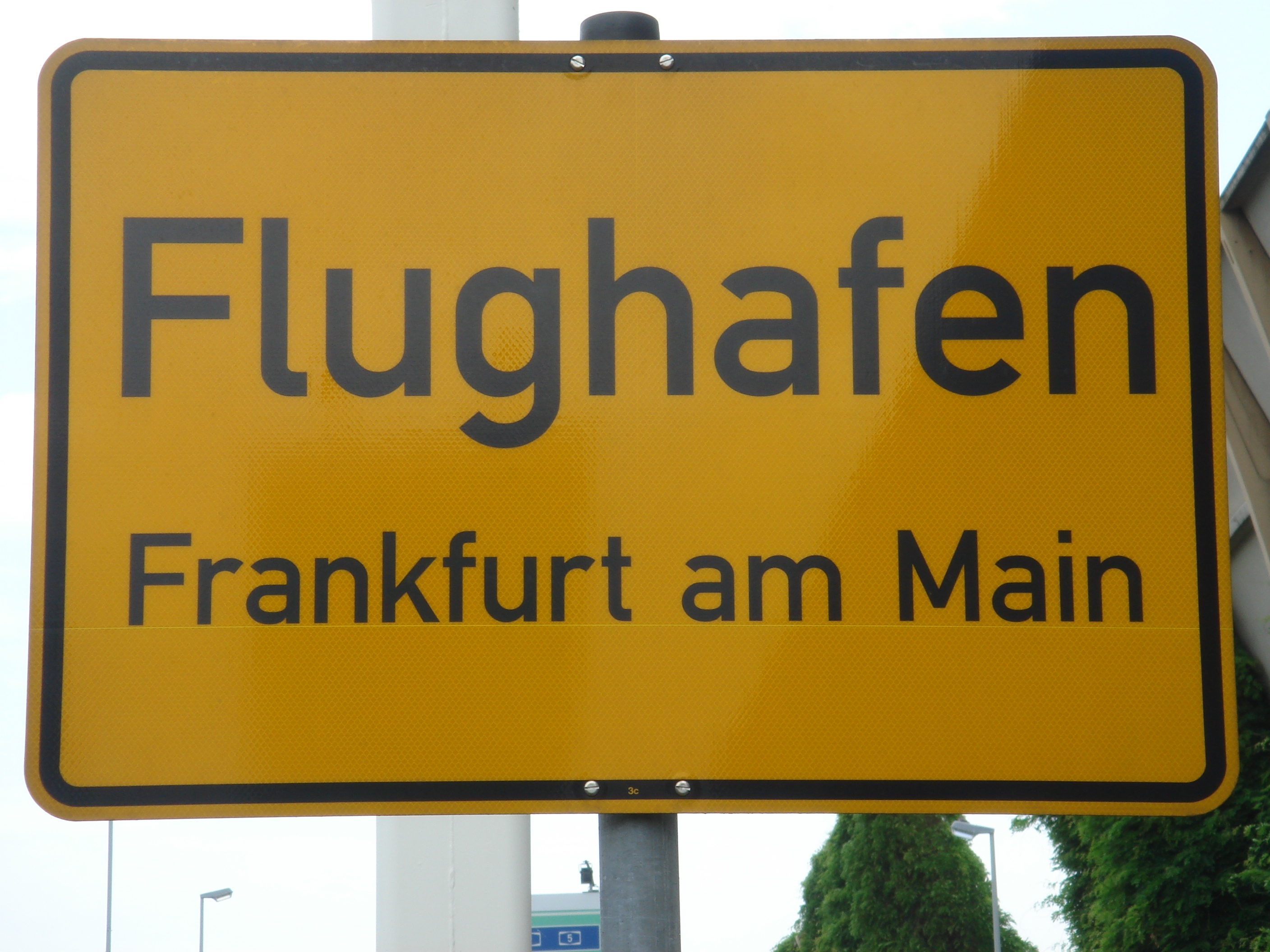 Sign indicating the Frankfurt-Flughafen district